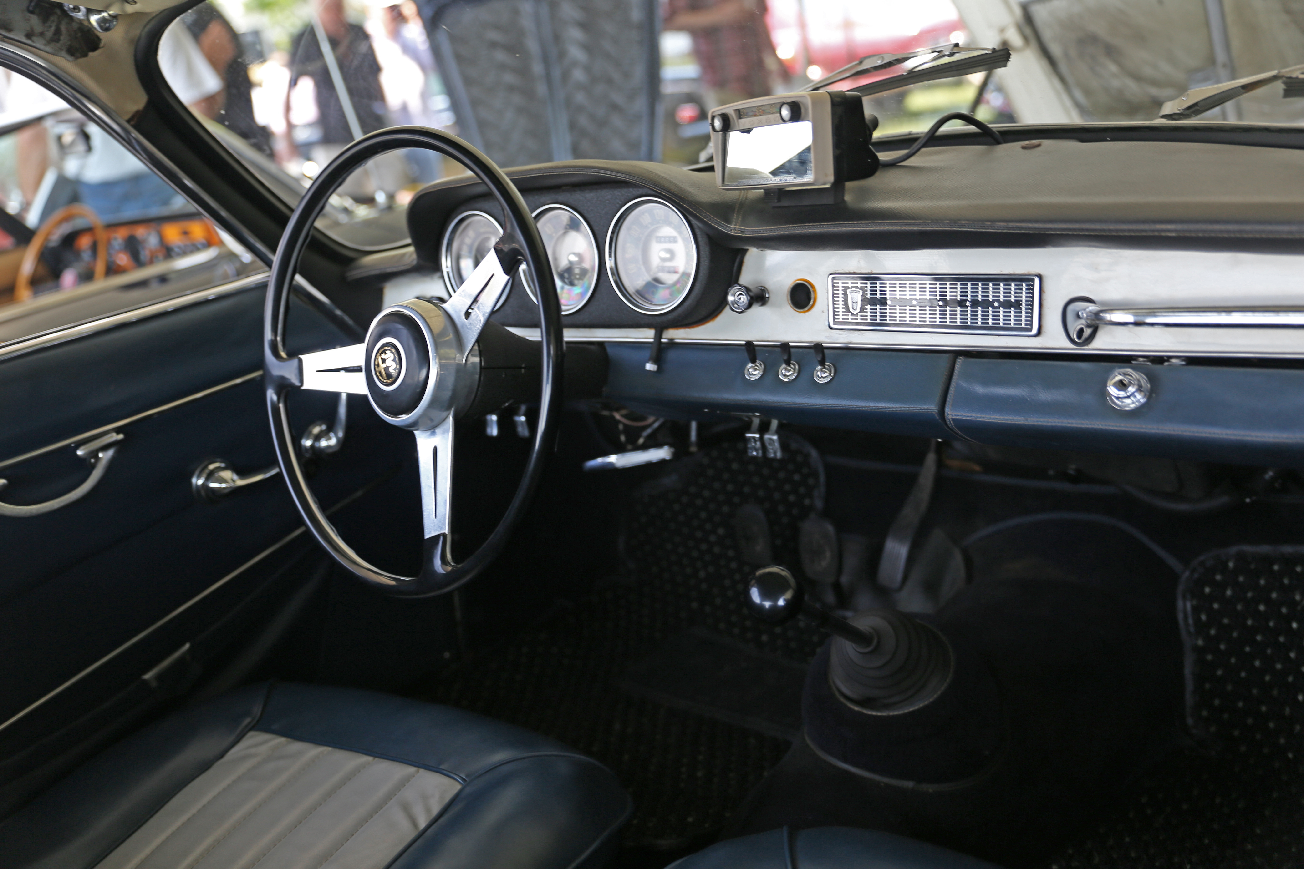 1962 Alfa Romeo Giulia Sprint 1600 Coupé at the Bonhams auction attached to the 2013 Greenwich Concours d'Elegance. Chassis number AR353030. The Giulietta Sprint received the 104hp 1570cc engine from 1962 until 1964 and was sold as a "Giulia", although it has no external differences. It did get a new steering wheel and dashboard, though. The 1600 was discontinued when the new Giulia GT was introduced in 1964, but a cheaper Giulia 1300 remained in production until late 1965 and appeared in price lists until November 1966.